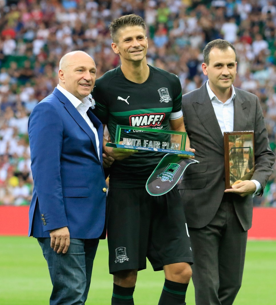 Krasnodar VS. Spartak Moscow 18 august 2018